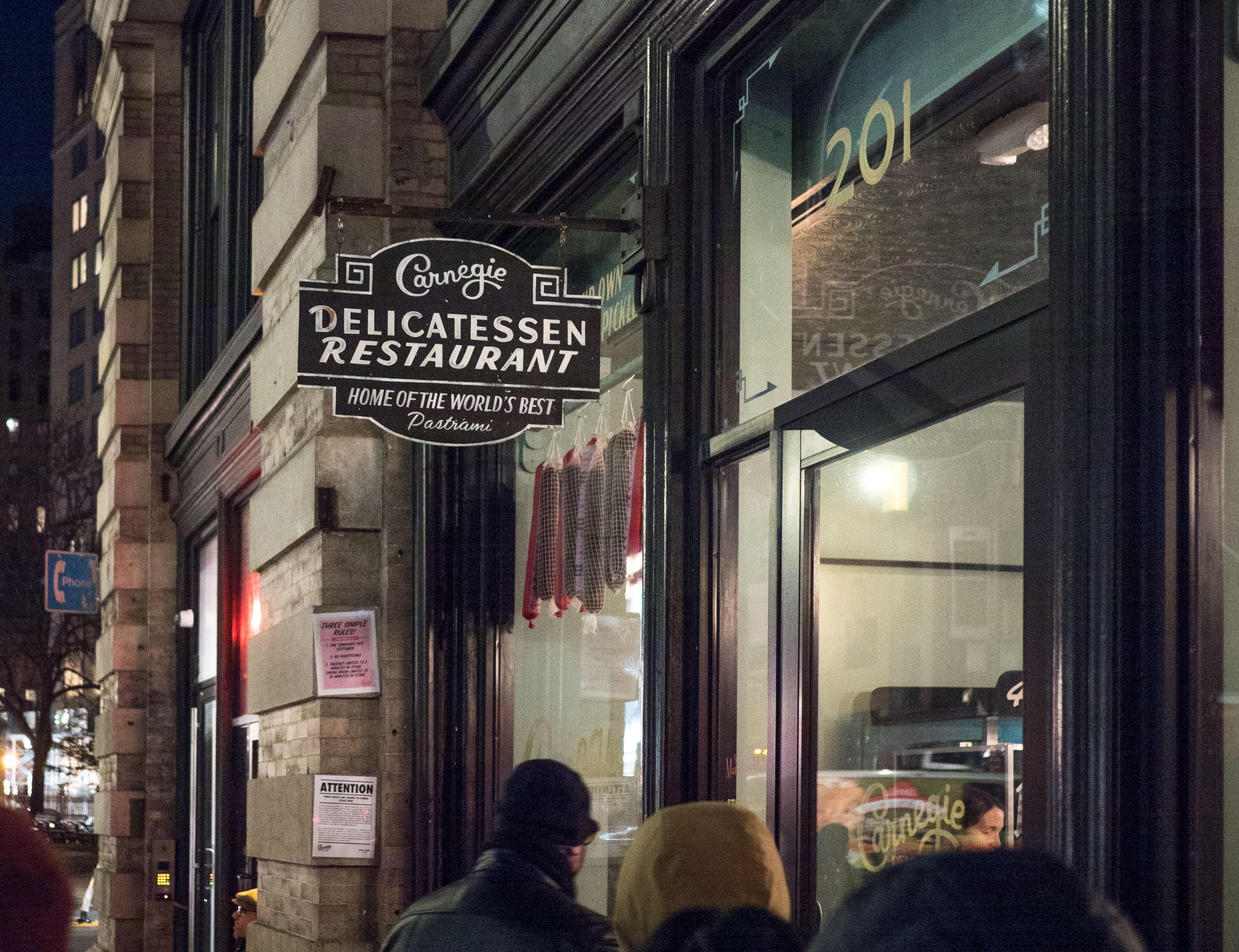 A 1950s-era version of the Carnegie Deli popped up as a promotion for season 2 of The Marvelous Mrs. Maisel in December 2018. 201 Lafayette Street in Manhattan.